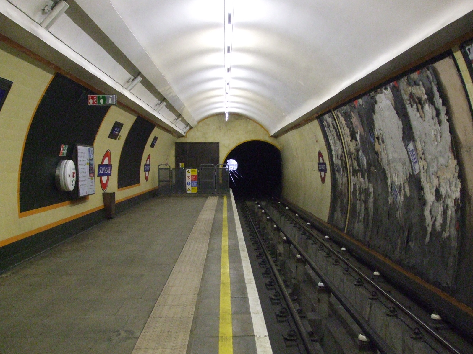 Southgate tube station southbound platform looking north towards tunnel portal, a unique sight on a deep-level Underground station